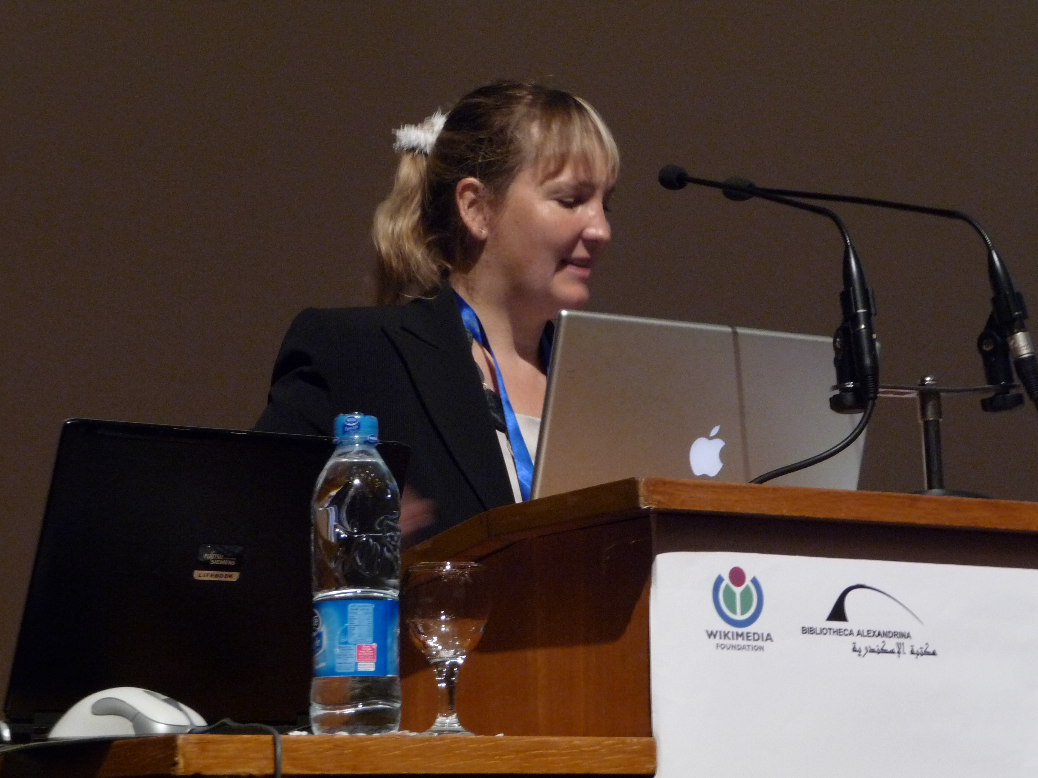 Florence Devouard at Opening Ceremony of Wikimania 2008.